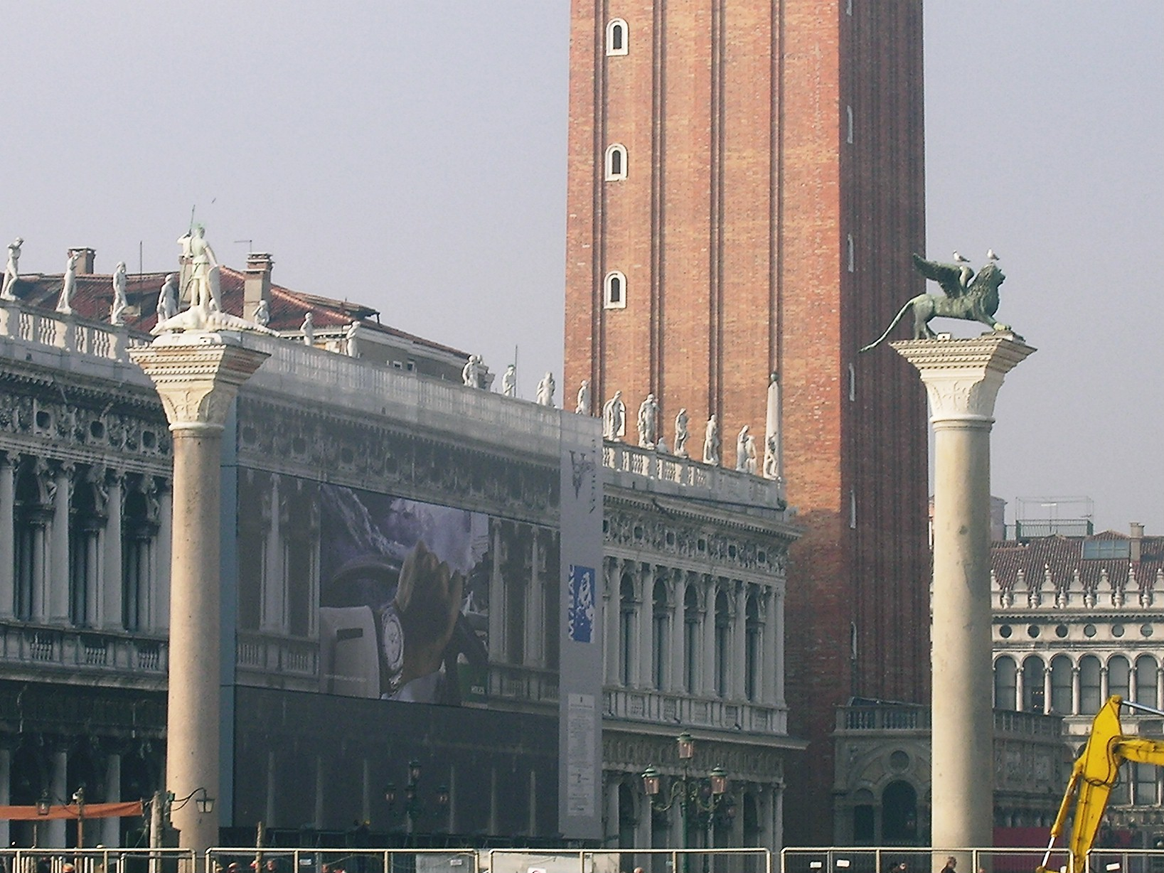 San Marco, 30100 Venice, Italy